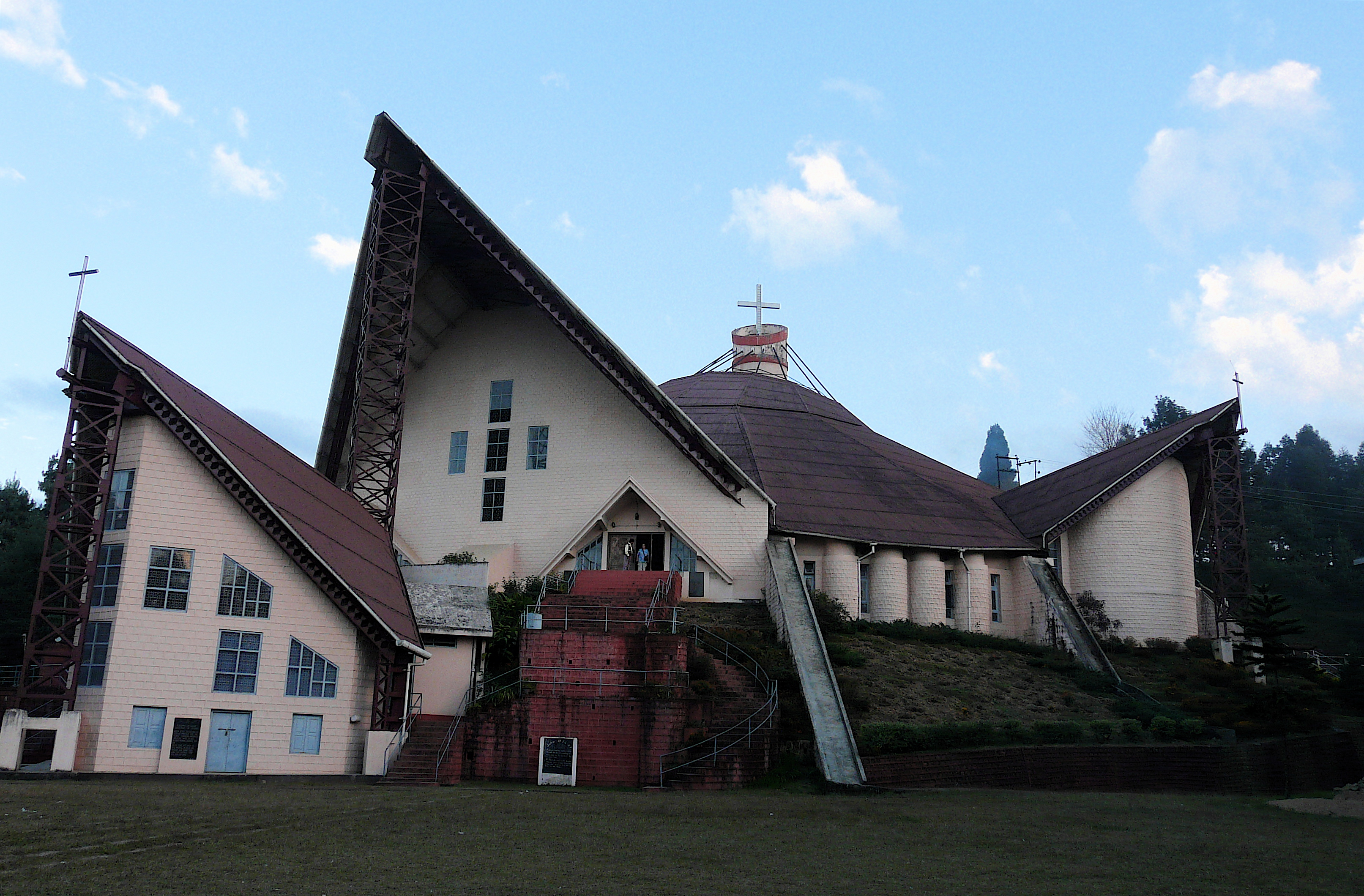 Mary Help of Christians Cathedral Kohima by Rita Willaert Katholieke kathedraal Kohima. Bij het binnenkomen lees je de volgende tekst: While entering the church you can read the following inscription: 'When you enter in here, bring before the lord all those who gave their life and who will give their all, for your safer and better Nagaland.'